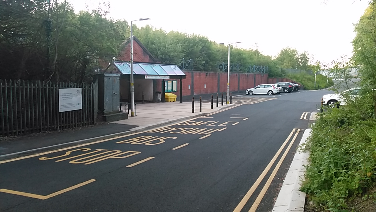 The front of Pontypool & New Inn railway station.